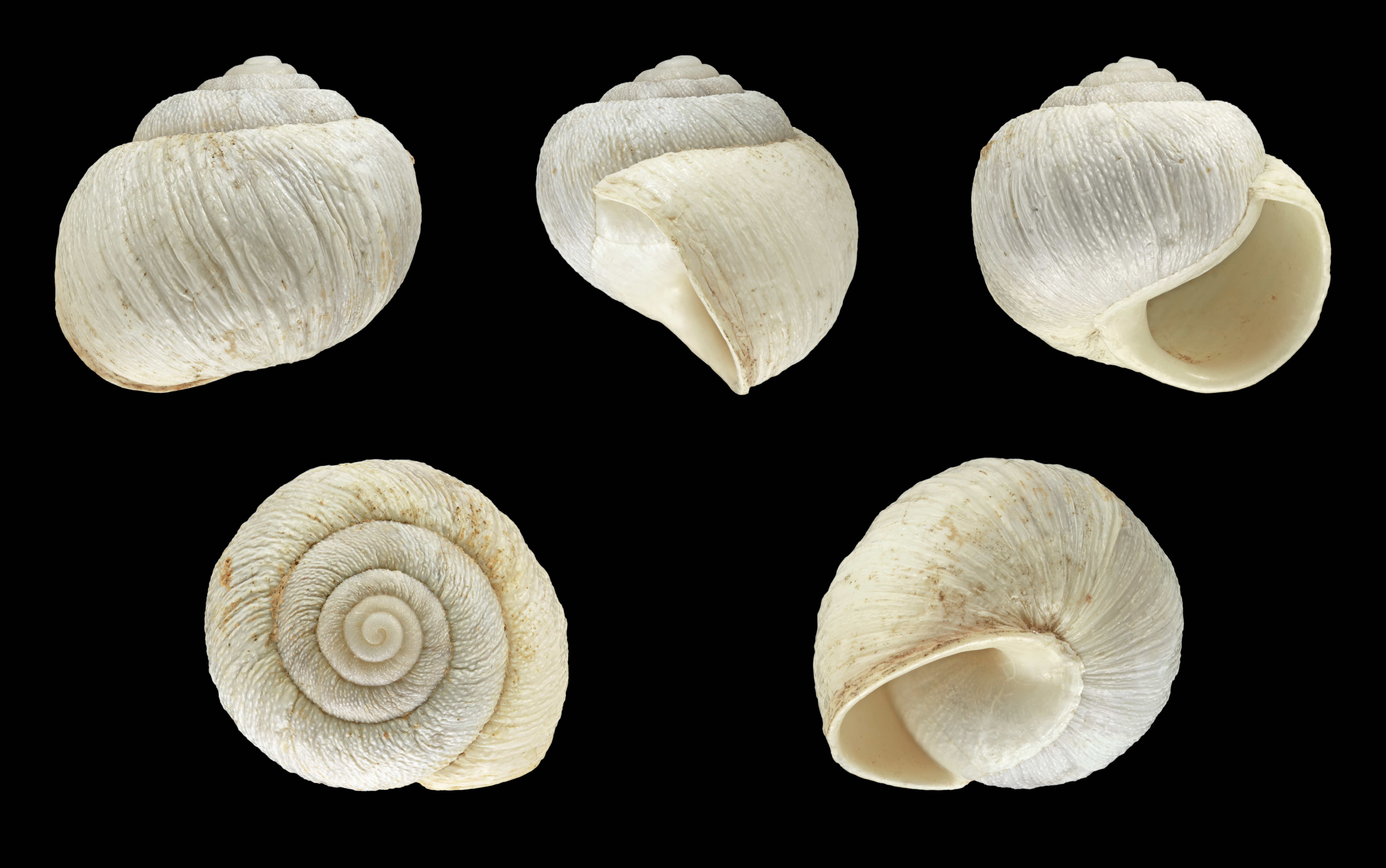 Subfossil; height 2.2 cm; Originating Porto Santo Island, Madeira Archipelago, Portugal; Shell of own collection, therefore not geocoded.